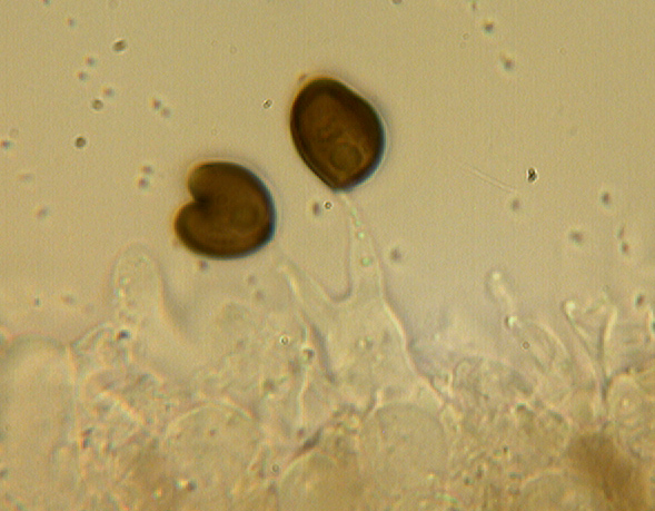 Panaeolus bispora basidia Photo by Workman, source here